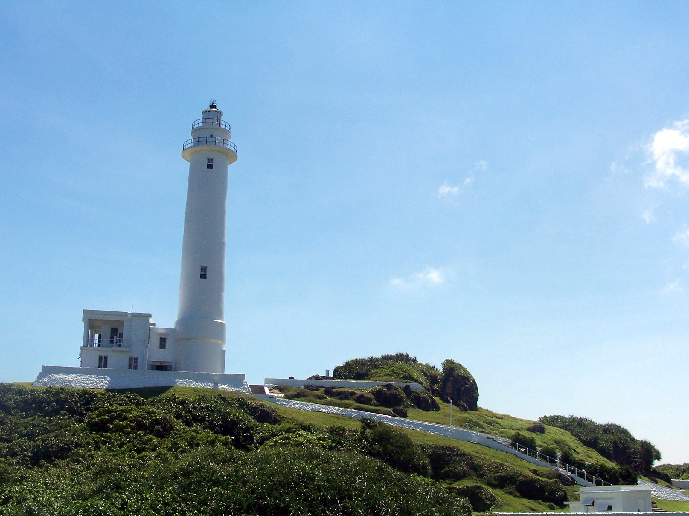 Lu-tao (Lyudao, Green Island) Lighthouse, Taitung, Taiwan